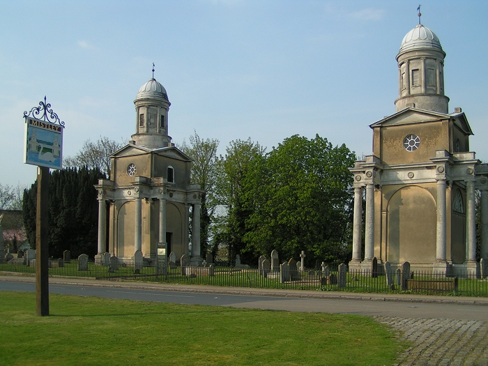 Mistley towers, Mistley, Essex, England. Photo by sannse.